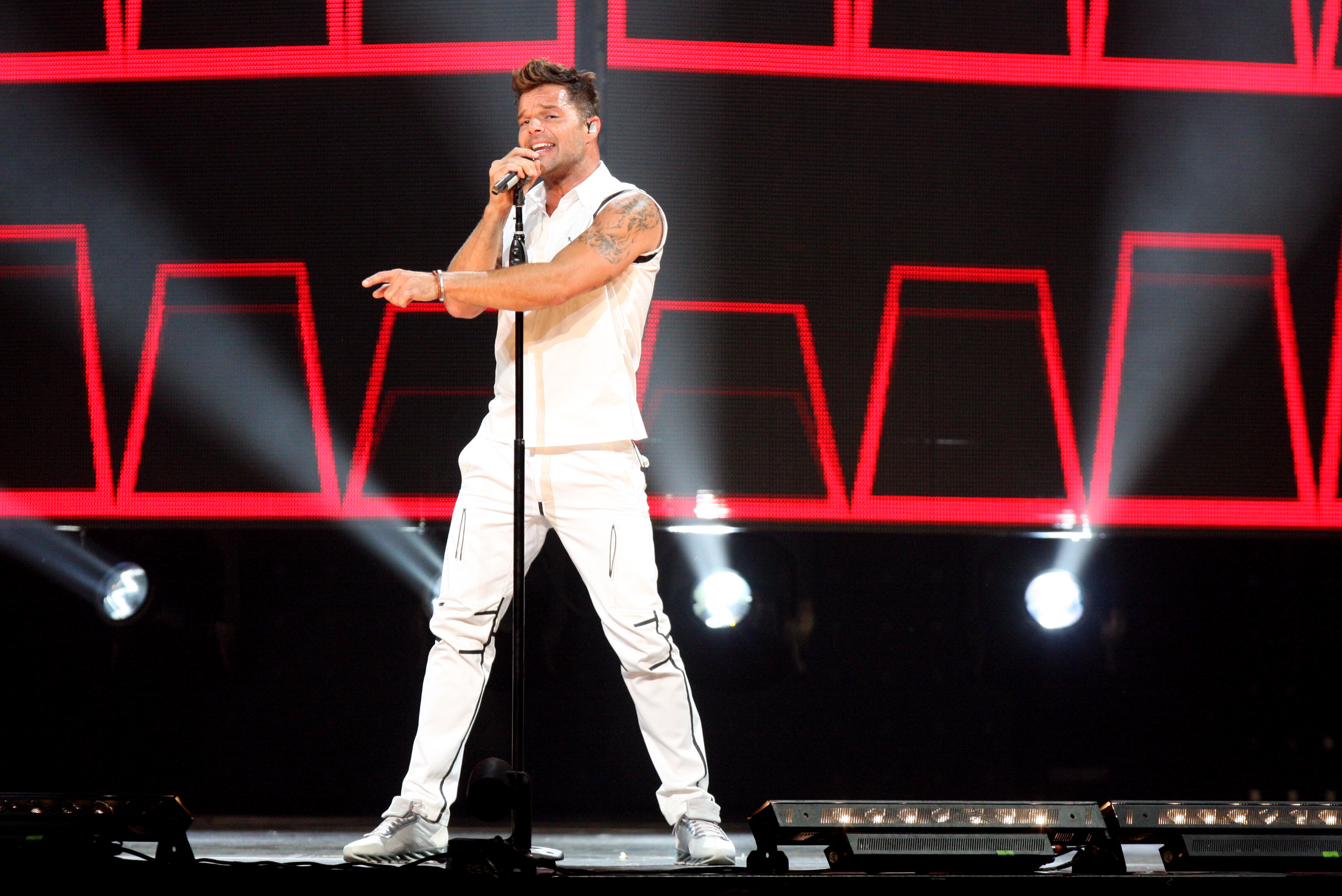 Ricky Martin @AllPhones Arena Sydney Australia